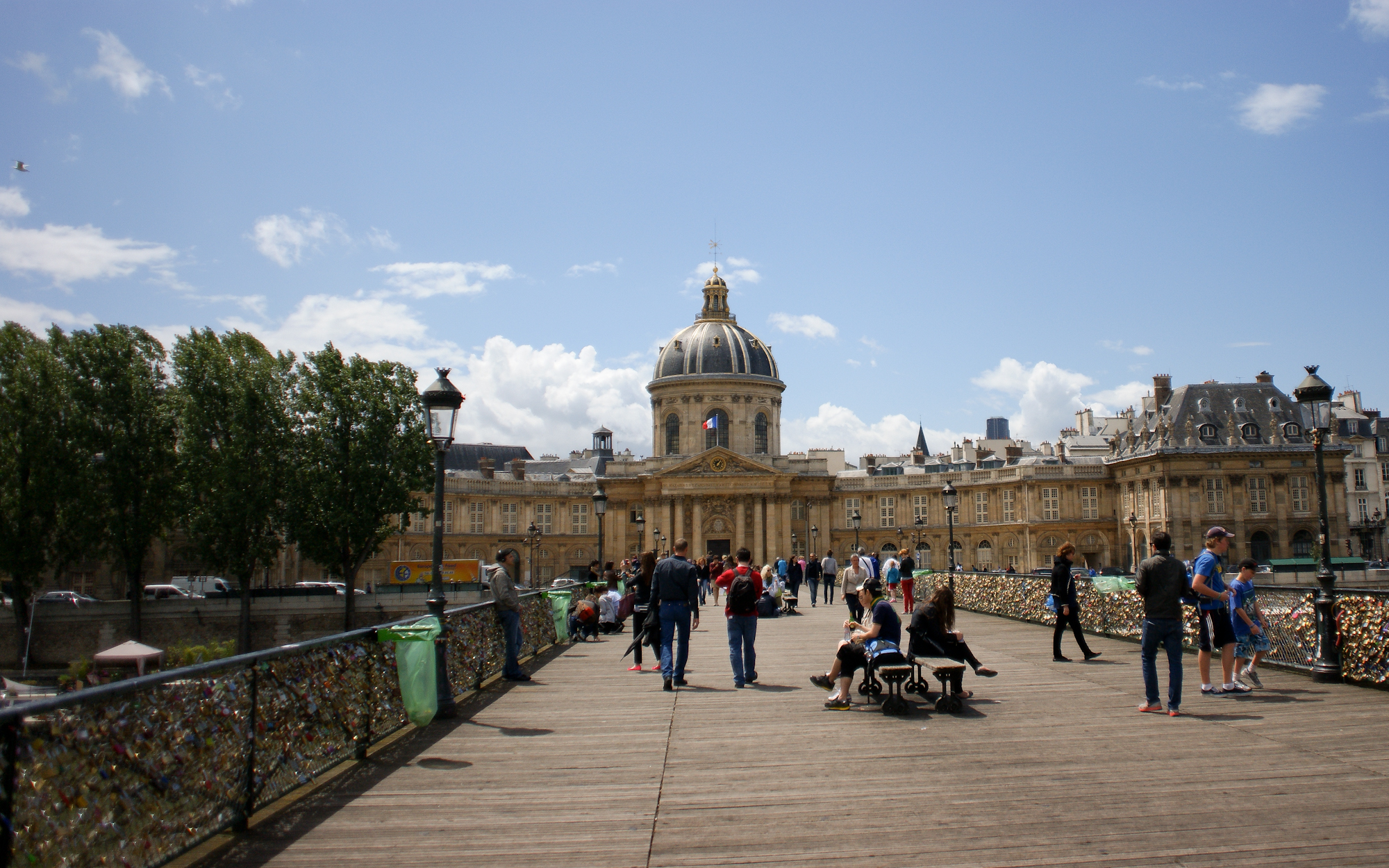 Academie Francaise, Pont des Arts, Paris